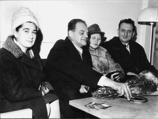 Nicolay Basov and Aleksandr Prokhorov with wives in Stockholm